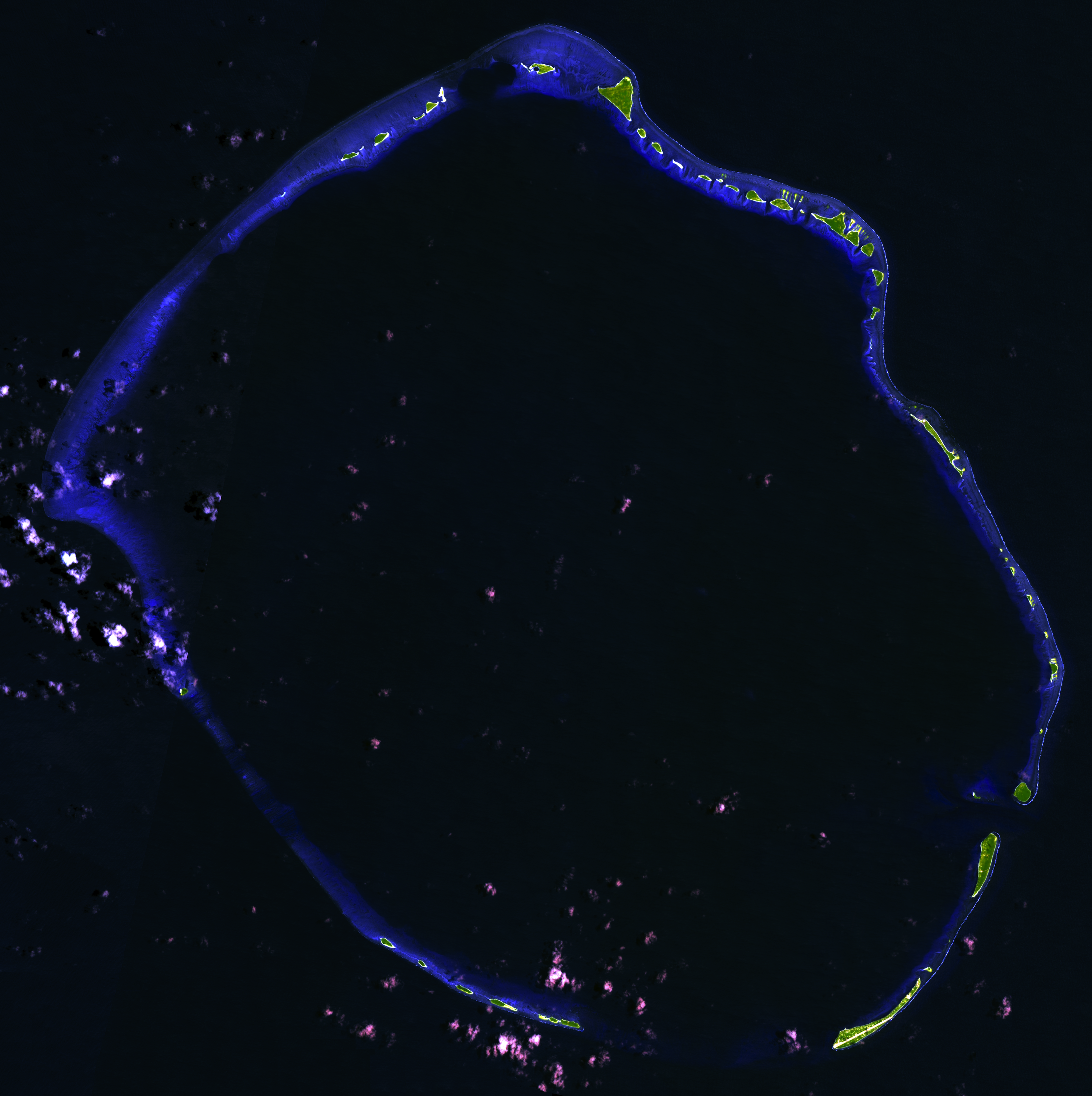 Composite "false color" multispectral satellite image of Enewetak Atoll, Marshall Islands. NASA EO-1 ALI bands used were 10 (SWIR), 8 (SWIR) and 2 (blue). The image was pan-sharpened and resampled to 15m resolution. Imagery courtesy of NASA/USGS.